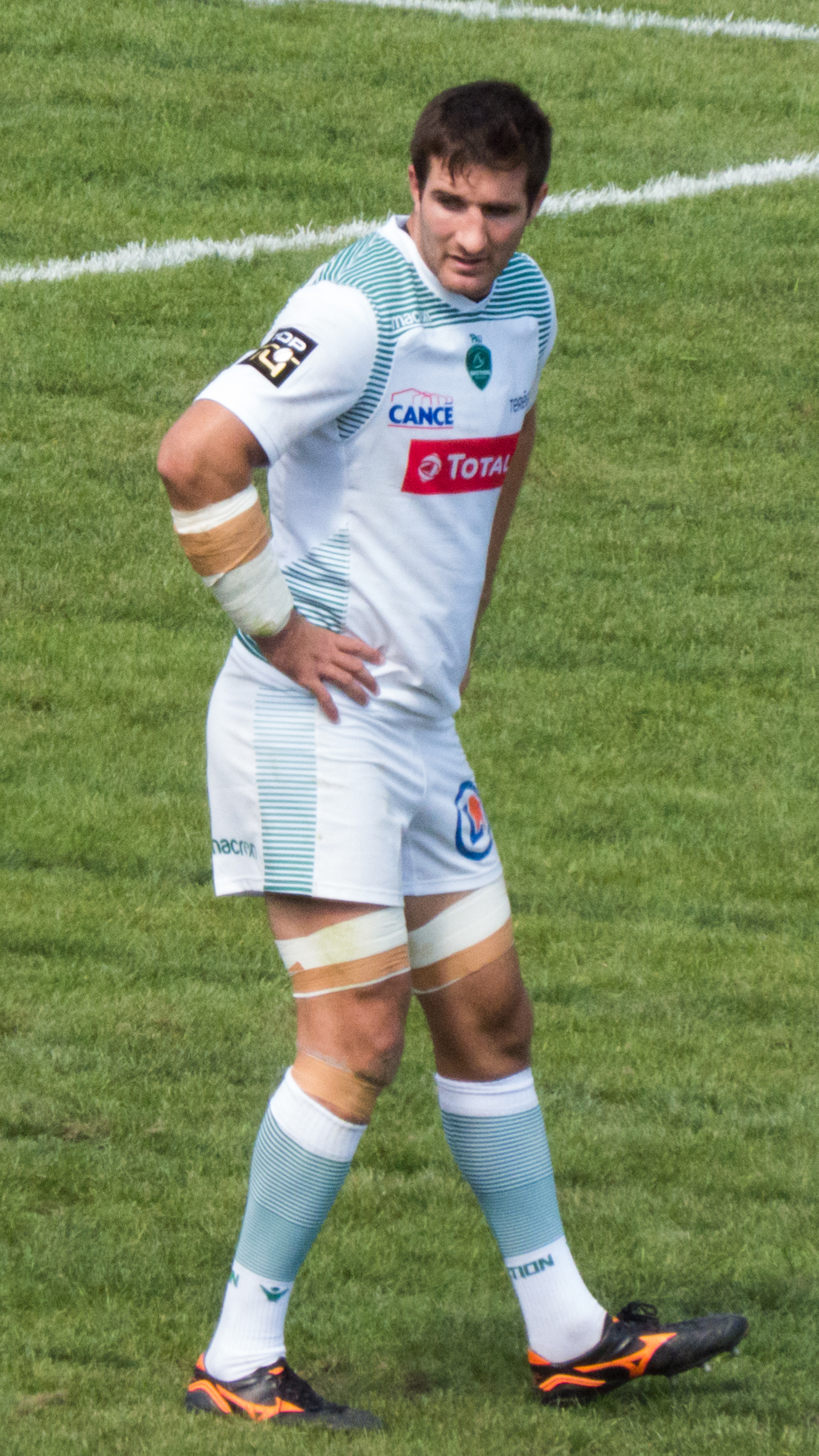 2018–19 Top 14 season — 1 September 2018, Stade du Hameau. Match between: Section Paloise — RC Toulonnais